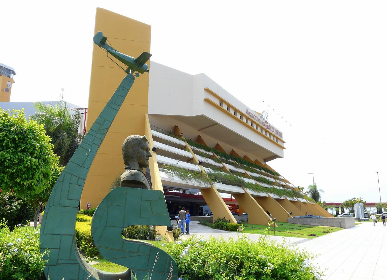 Monumento a Silvio Pettirossi en Paraguay